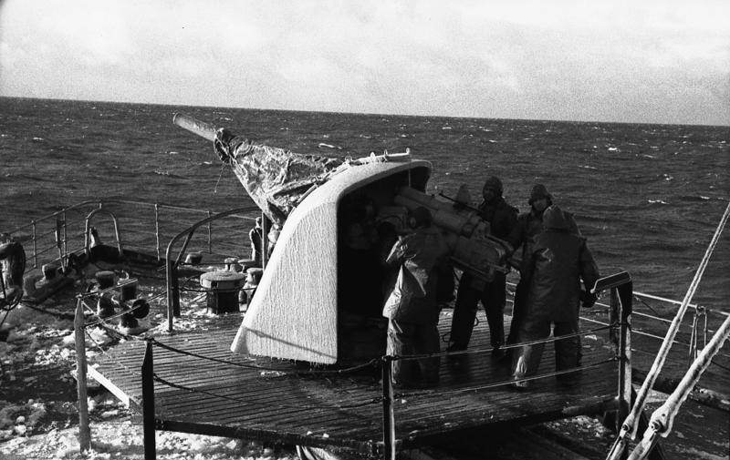 8.8 cm L/45 gun